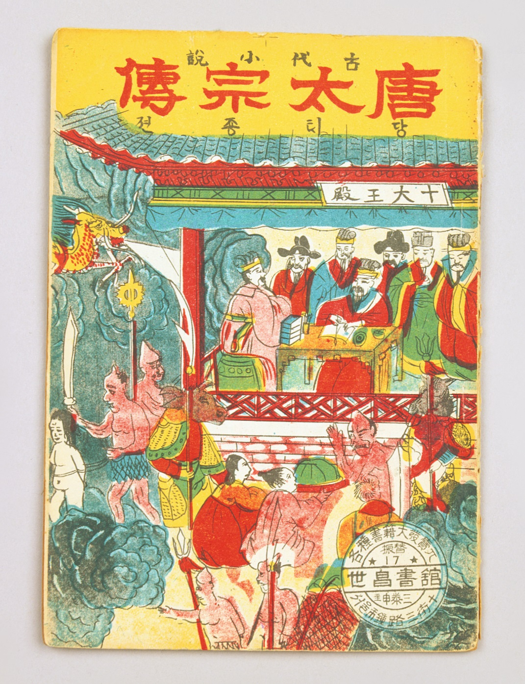 Tale of Tang Taizong, an Early Modern Korean novel inspired by the Chinese Journey to the West